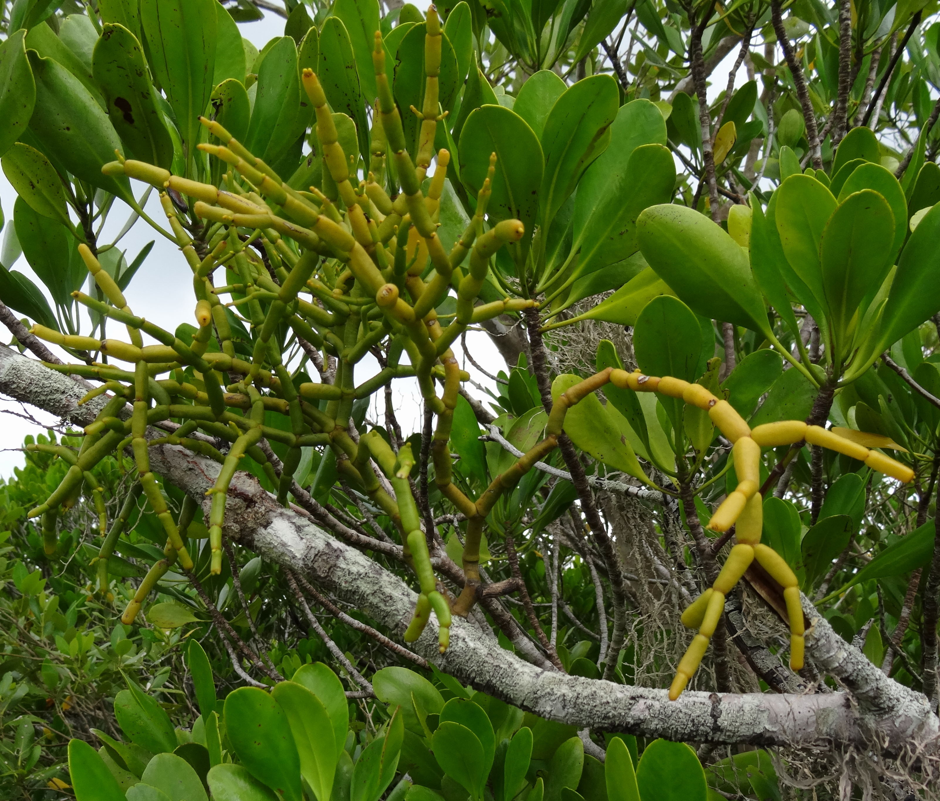 Viscum littorum on a mangrove, Ceriops tagal, in Pemba Bay of northern Mozambique. This species was discovered in 1967 and has not been seen since. Here they are, the first pictures of this rare endemic plant in its wild habitat.